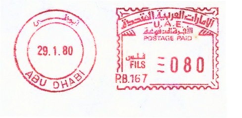 Meter stamp catalog image, United Arab Emirates type 1